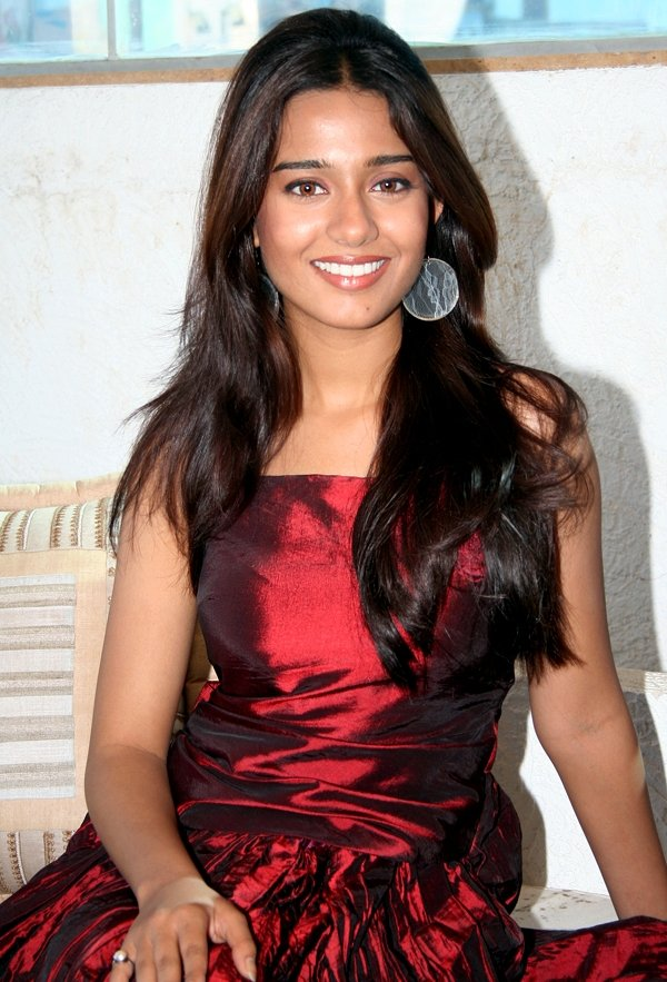 Amrita Rao promotes My Name Is Anthony Gonsalves